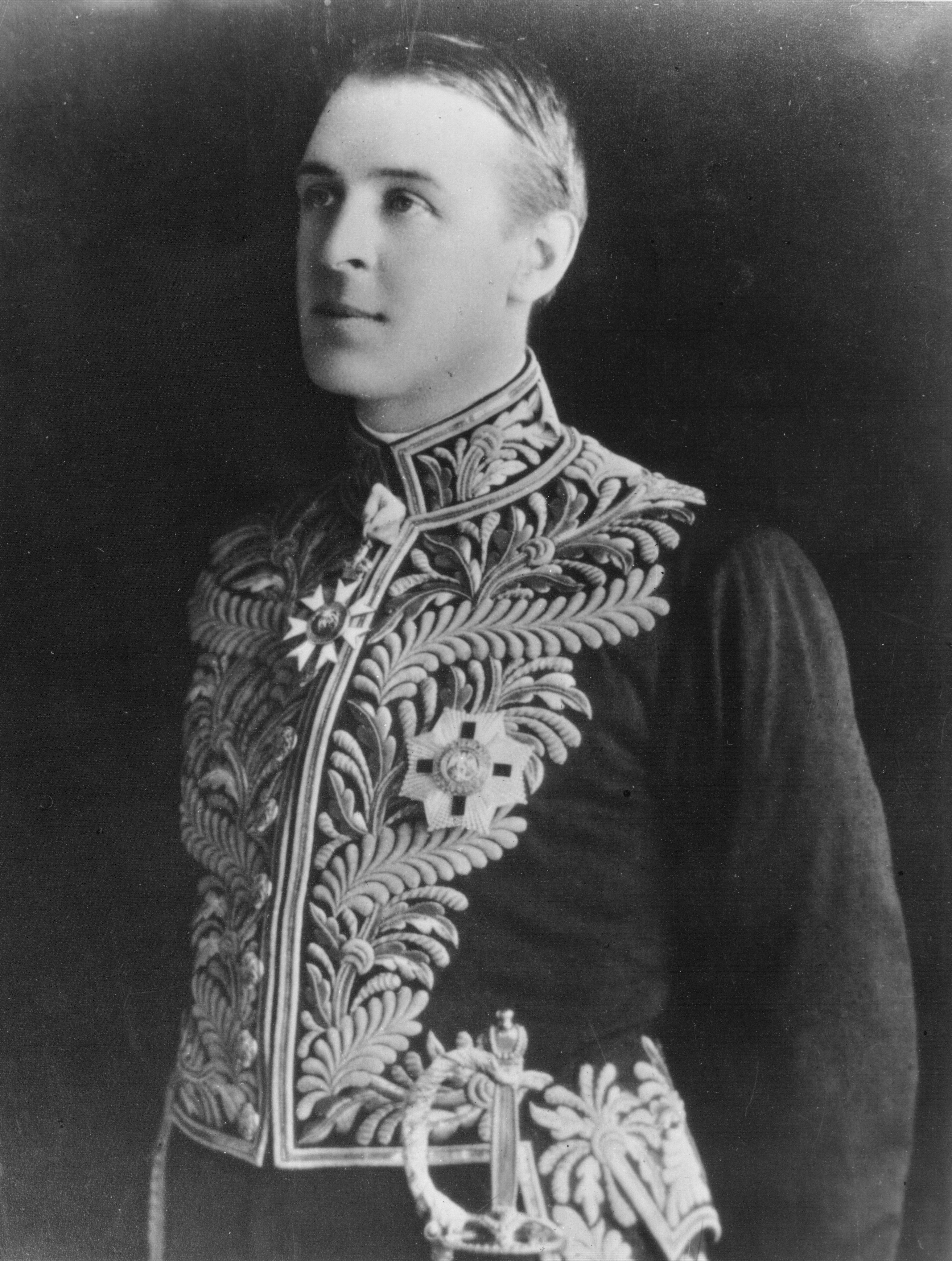 Governor of Queensland, Lord Chelmsford (1906-1909) posing in the Windsor uniform